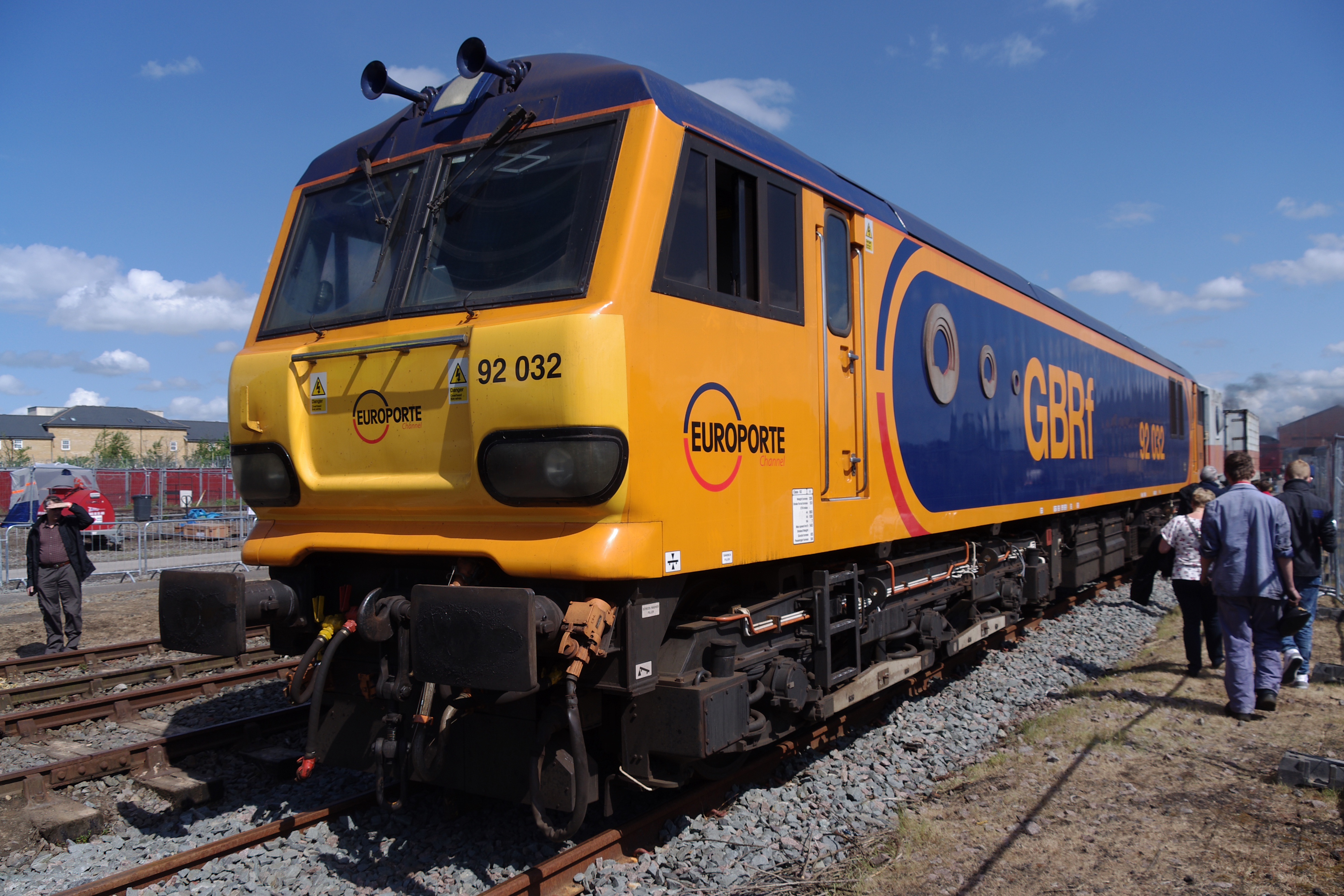 GBRf class 92 electric locomotive 92032 at Railfest 2012.